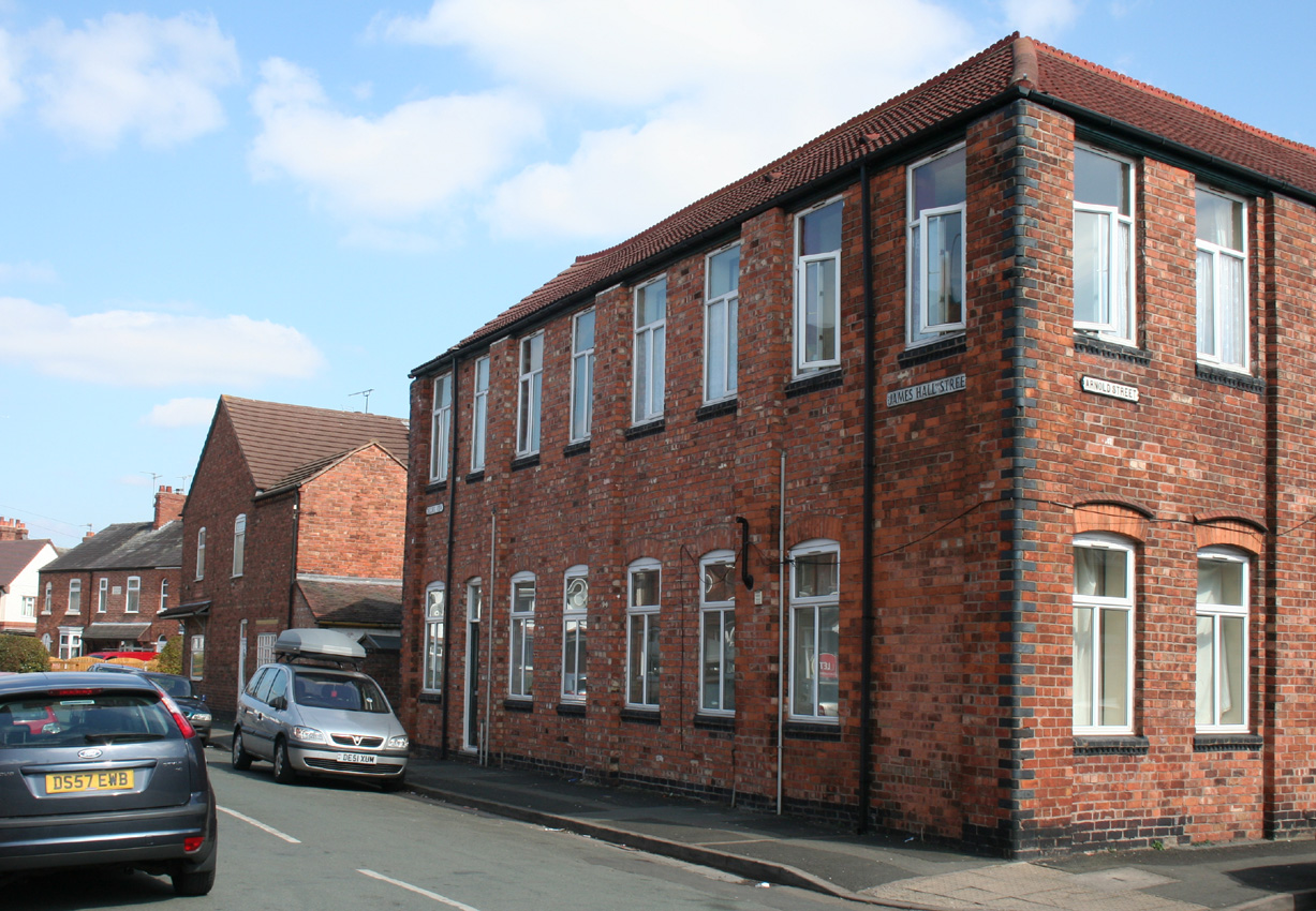 James Hall Street, Nantwich, Cheshire. The building on the right is a former clothing factory.